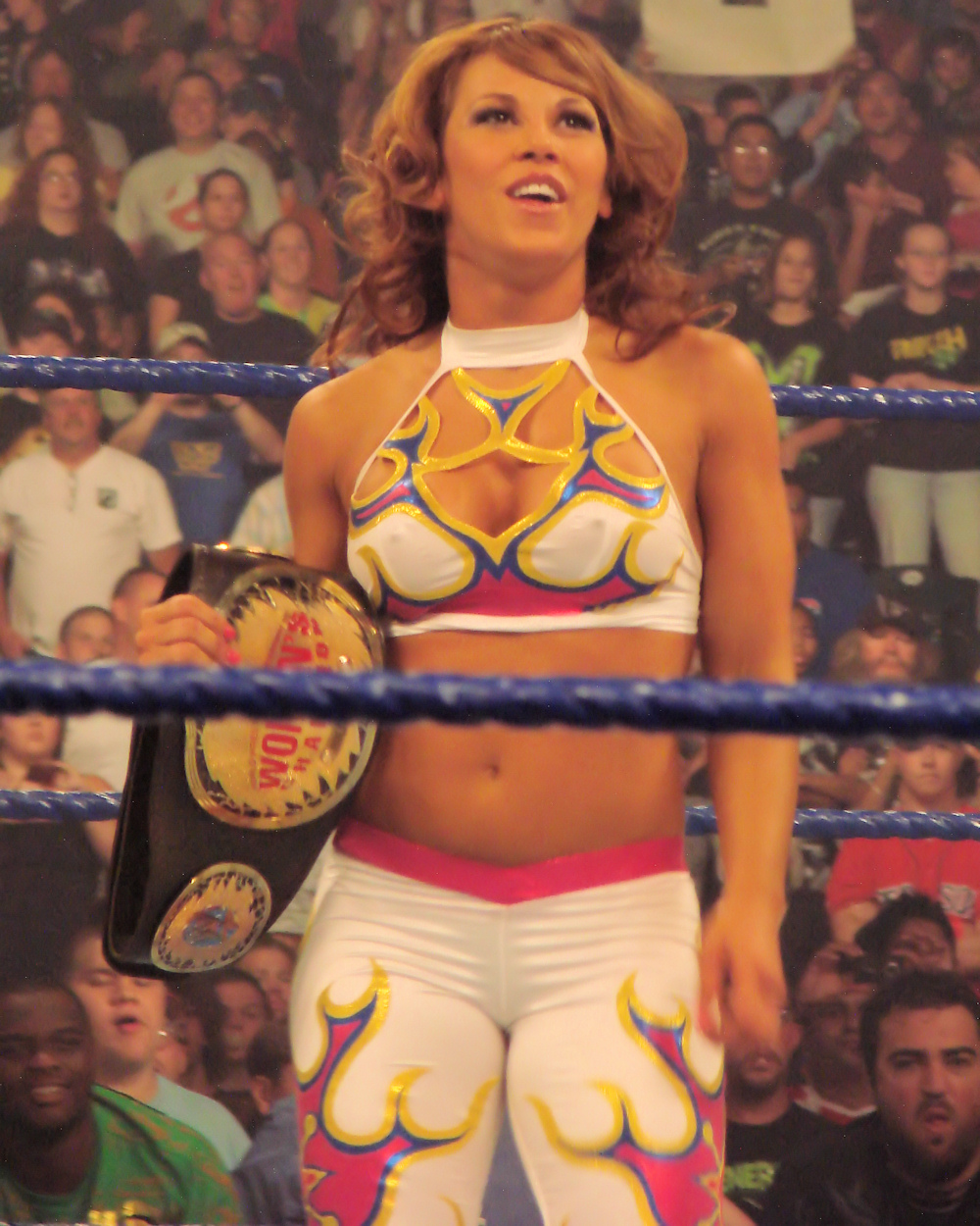 Mickie James at WWE SummerSlam 2008. Indianapolis, Indiana.